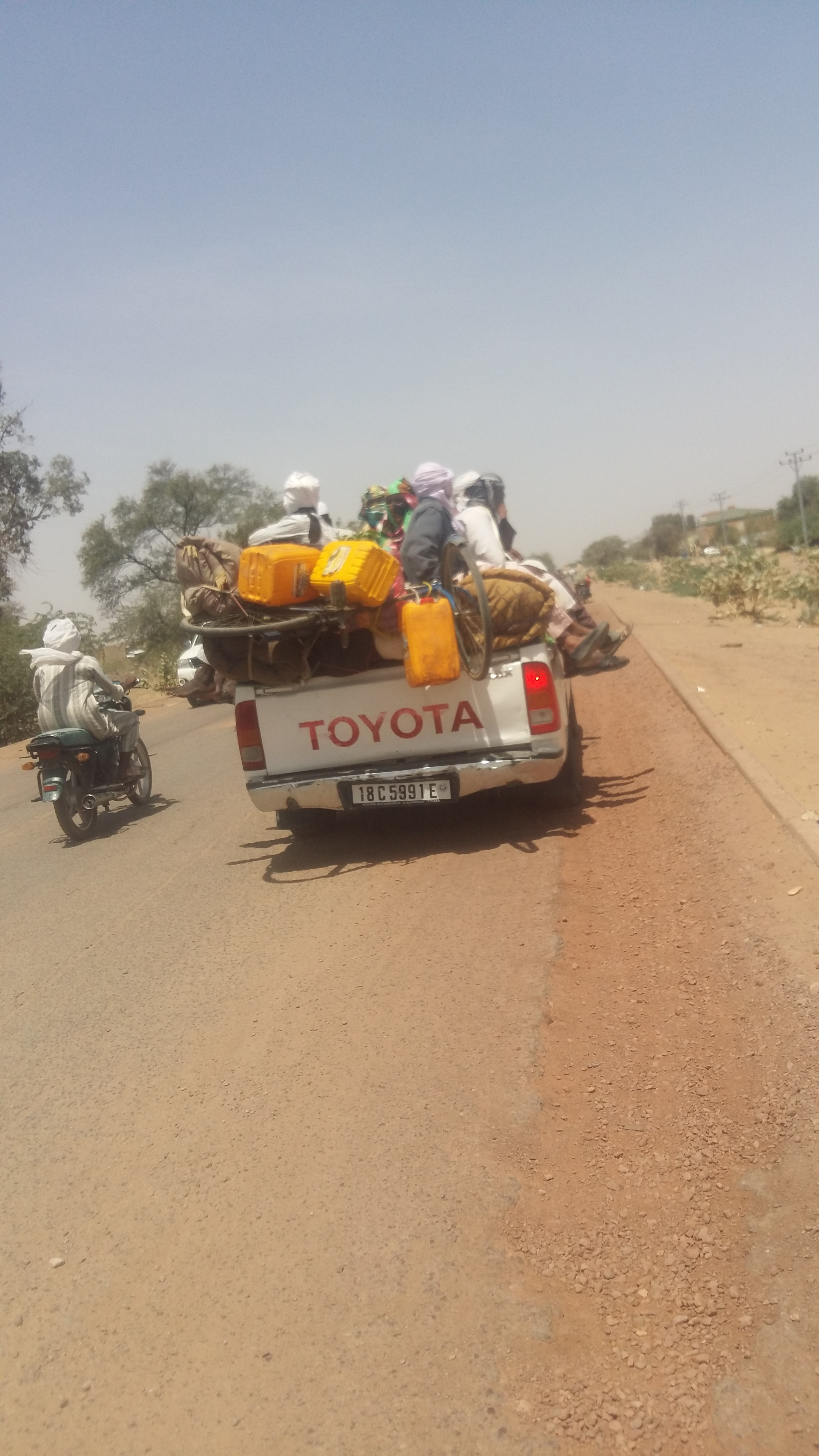 Transport à Goudji, Ndjamena This is an image with the theme "Africa on the Move or Transport" from: Chad